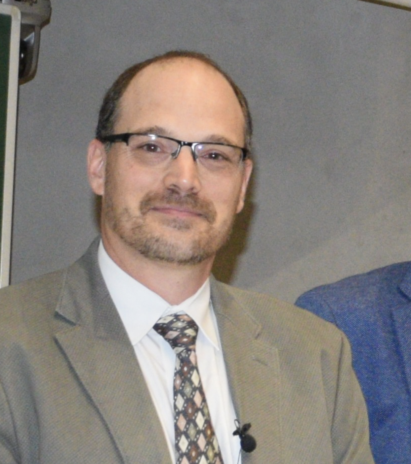 Picture taken during Meunier's inaugural lecture as International Francqui Chair